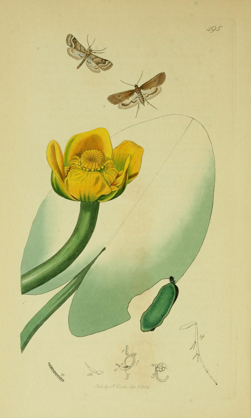 An illustration from British Entomology by John Curtis. Lepidoptera: Hydrocampa stratiota or Parapoynx stratiotata (Ringed China-mark).